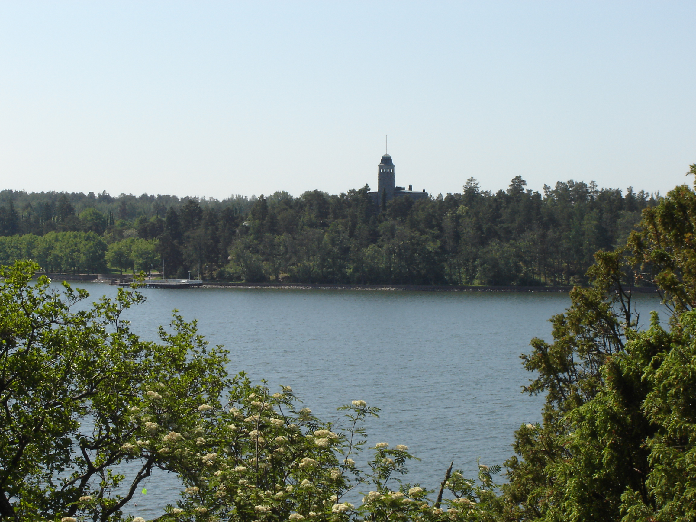 Kultaranta Castle, the summer residence of the President of Finland, in Naantali, Finland